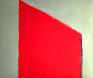 Thornton Willis "Red Warrior" 1980, Acrylic on Canvas 84 x 100 inches.